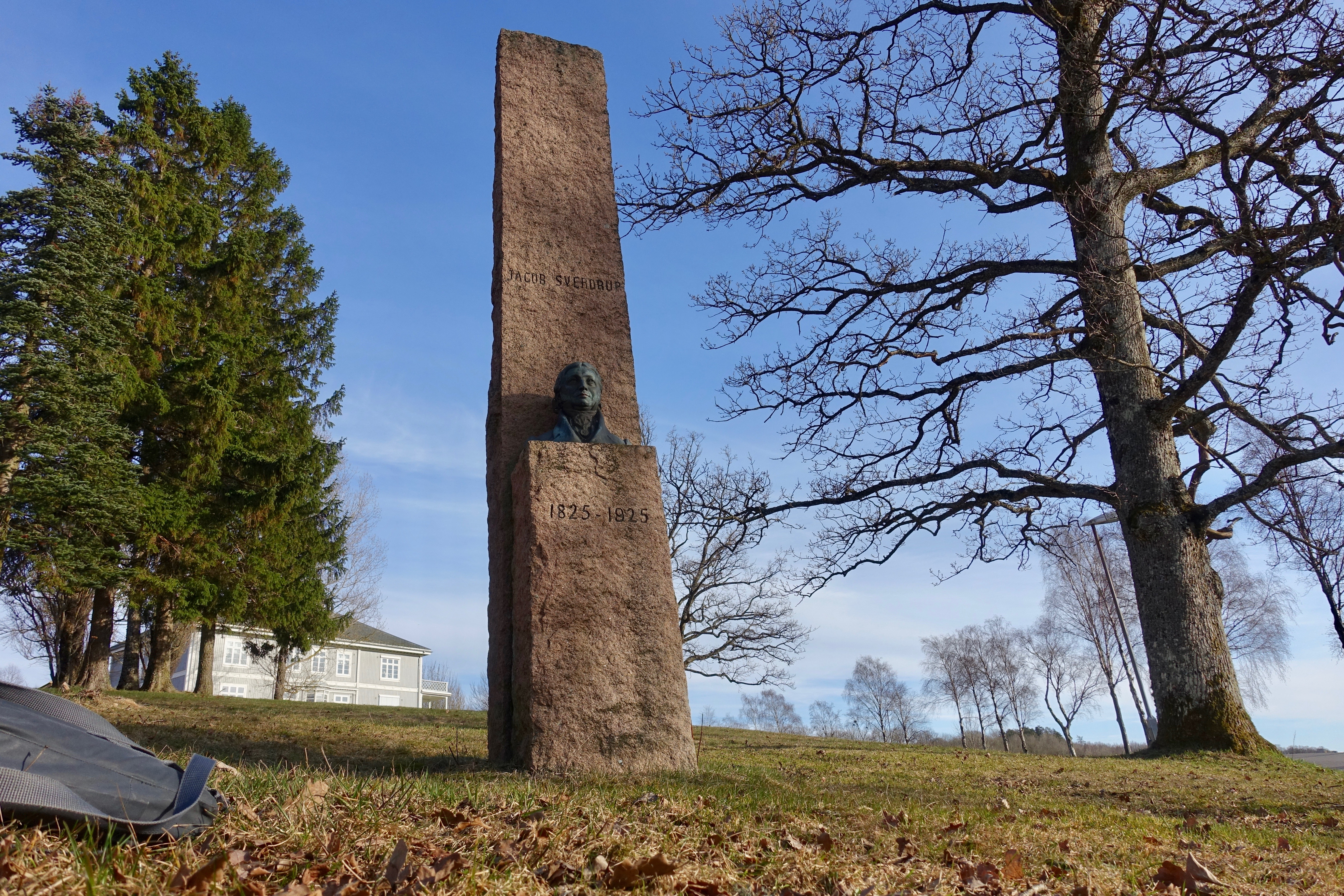 Monument of Norwegian politician Jacob Sverdrup (1845 – 1899) at Melsom videregående skole in Melsomvik near Tønsberg, Norway. Bust by Gustav Lærum. Erected 1925. Photo 2019-03-25